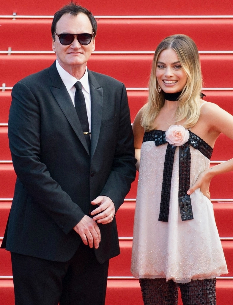 Quentin Tarantino & Margot Robbie in 2019